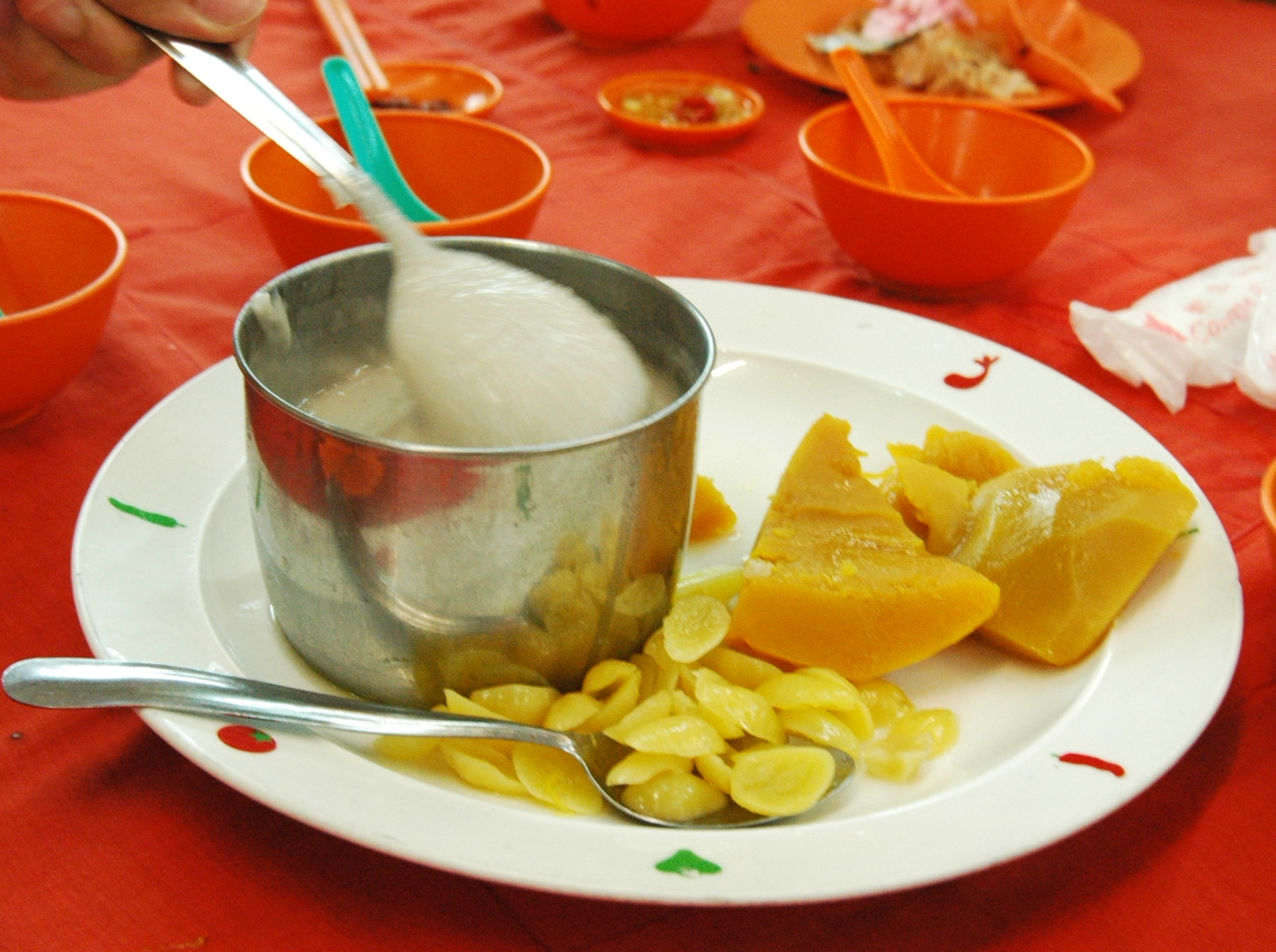 from teo soon hock teochew restaurant in Melaka